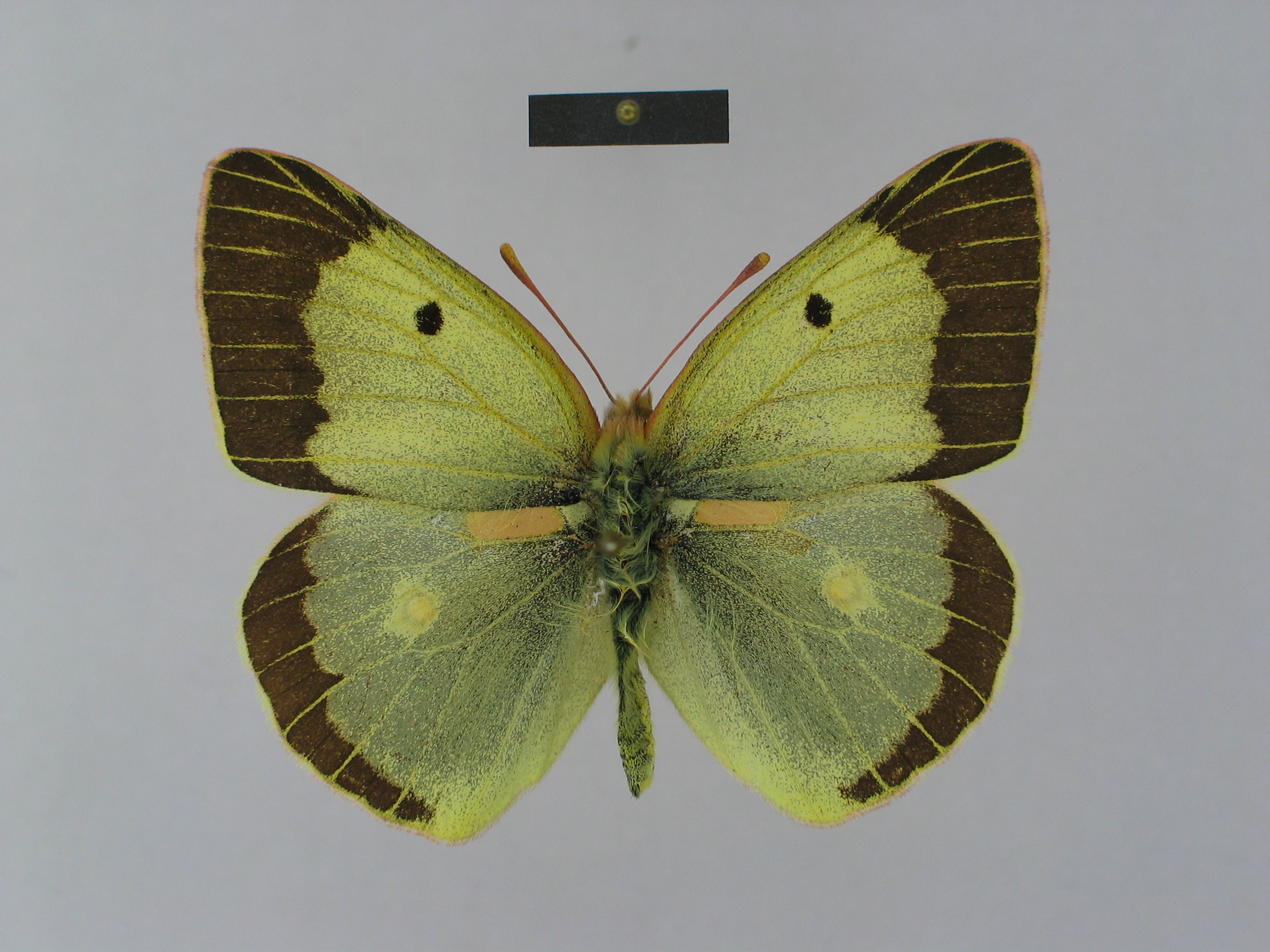 Paratype of the species Colias chlorocoma aladagensis from the collection of the Zoologische Staatssamlung München; ♂ dorsal side; scalebar=1 cm